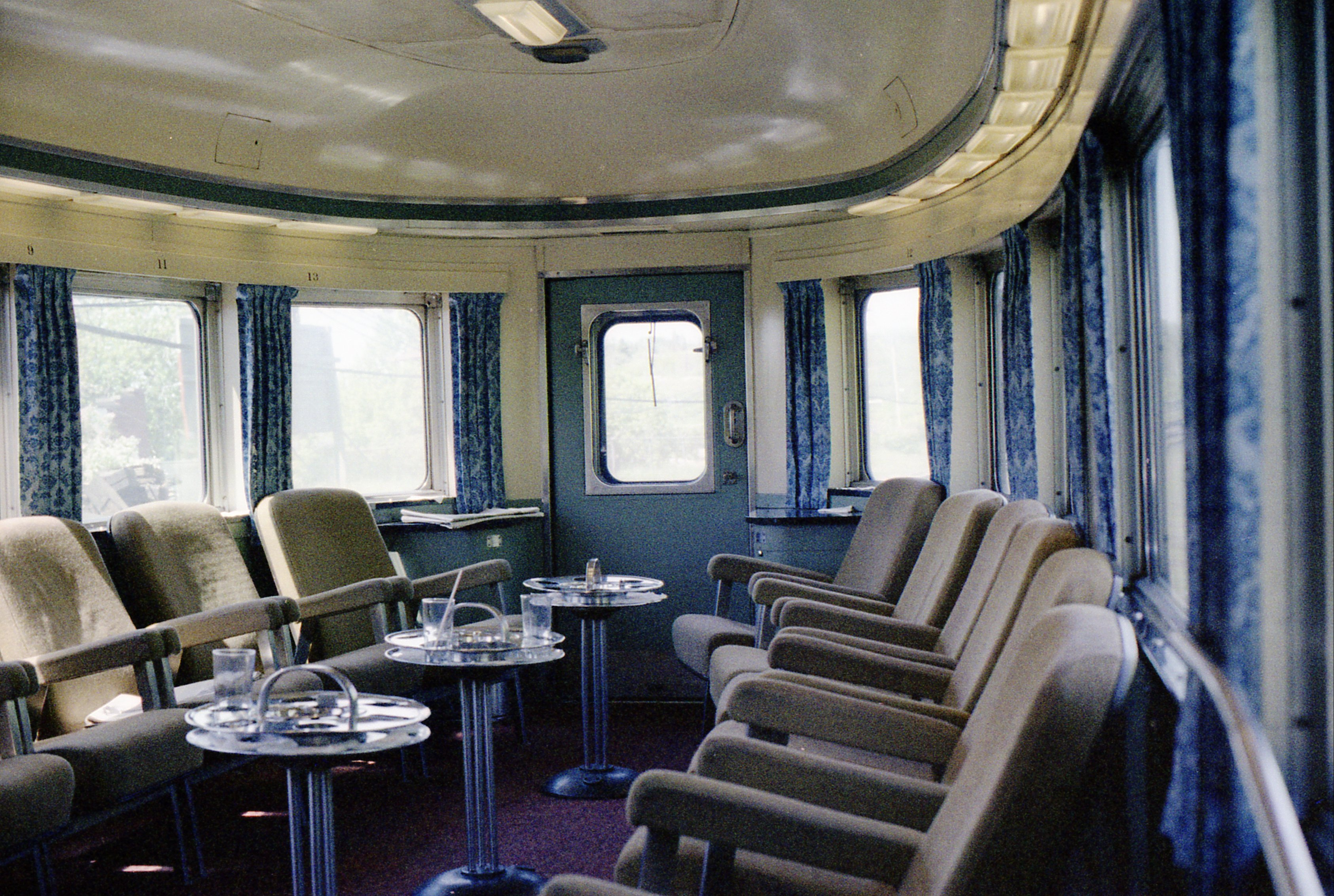 Inside the rear observation car of the Canadian Pacific Trans Continental train in 1978. Facing the rear, lovely views of the receding countryside whilst taking a drink or snacking from the bar. Camera: Olympus OM1 35mm SLR. Film: Kodacolour.